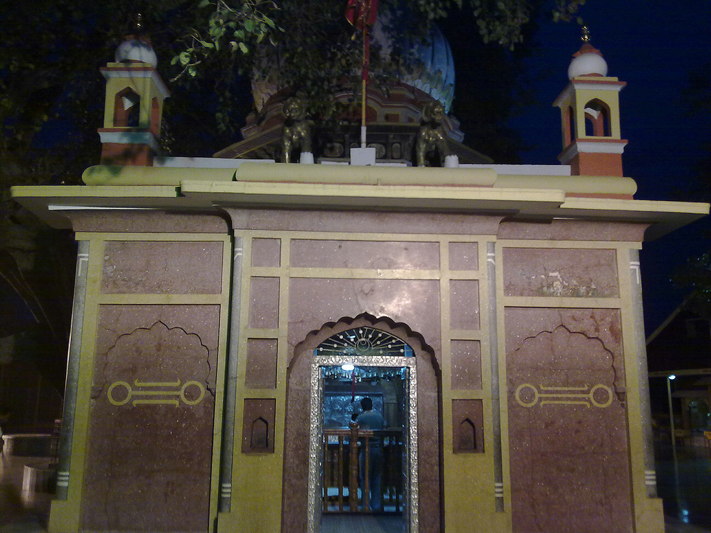 The main building in the center of the temple where the "pindi" of Mata Bala Sundri is present.